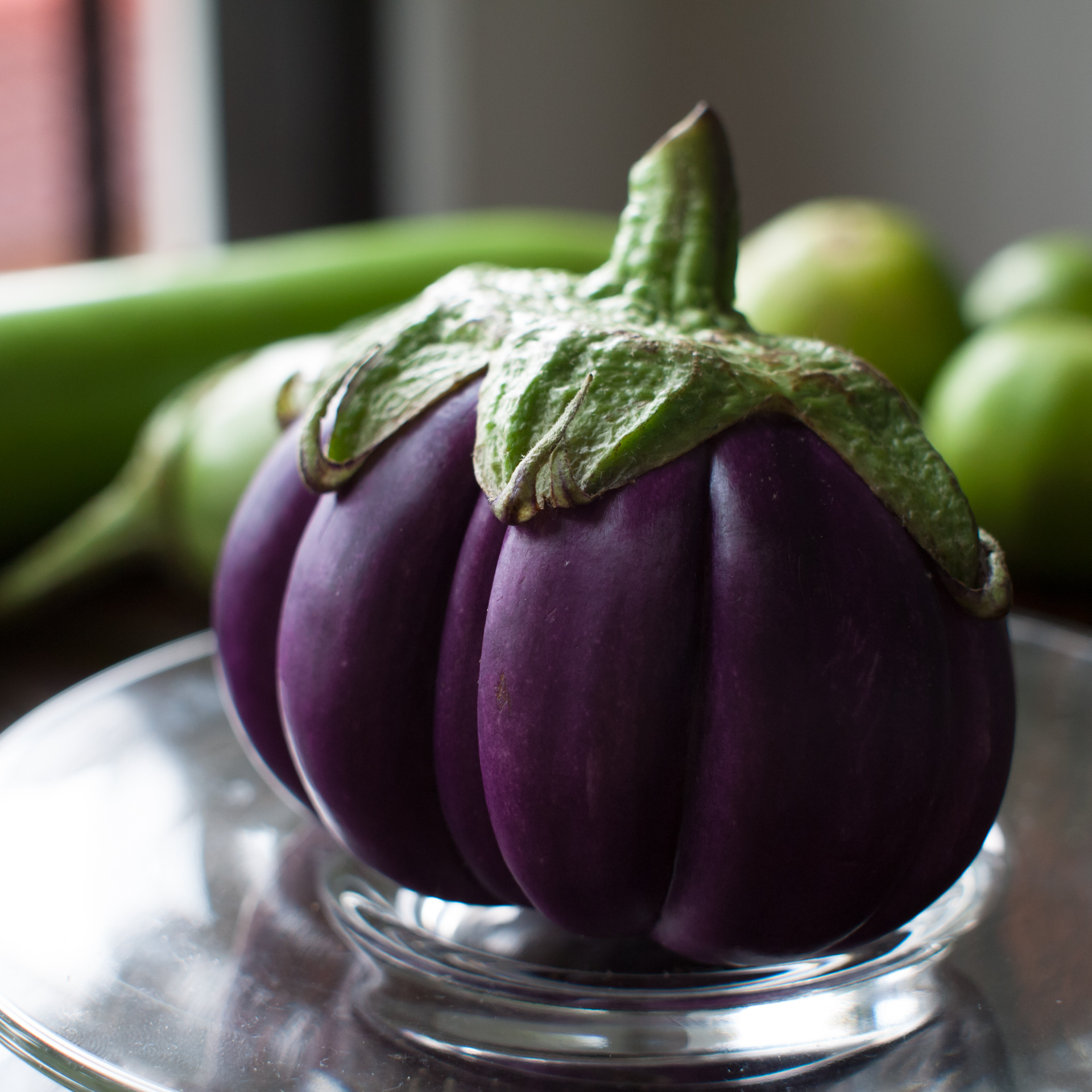 Segmented purple aubergines seem to be the new thing in Thailand. They, as yet, have no specific name and are called "makhuea muang" (purple aubergine), the same as the usual, unsegmented and slender purple aubergine.